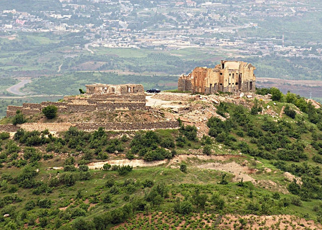 These are the remains of a mountain top villa once used by Saddam Hussein, located outside of Arbil, Arbil Province, Iraq (IRQ), destroyed during Operation IRAQI FREEDOM. (Released to Public) Location: ARBIL, ARBIL IRAQ (IRQ)